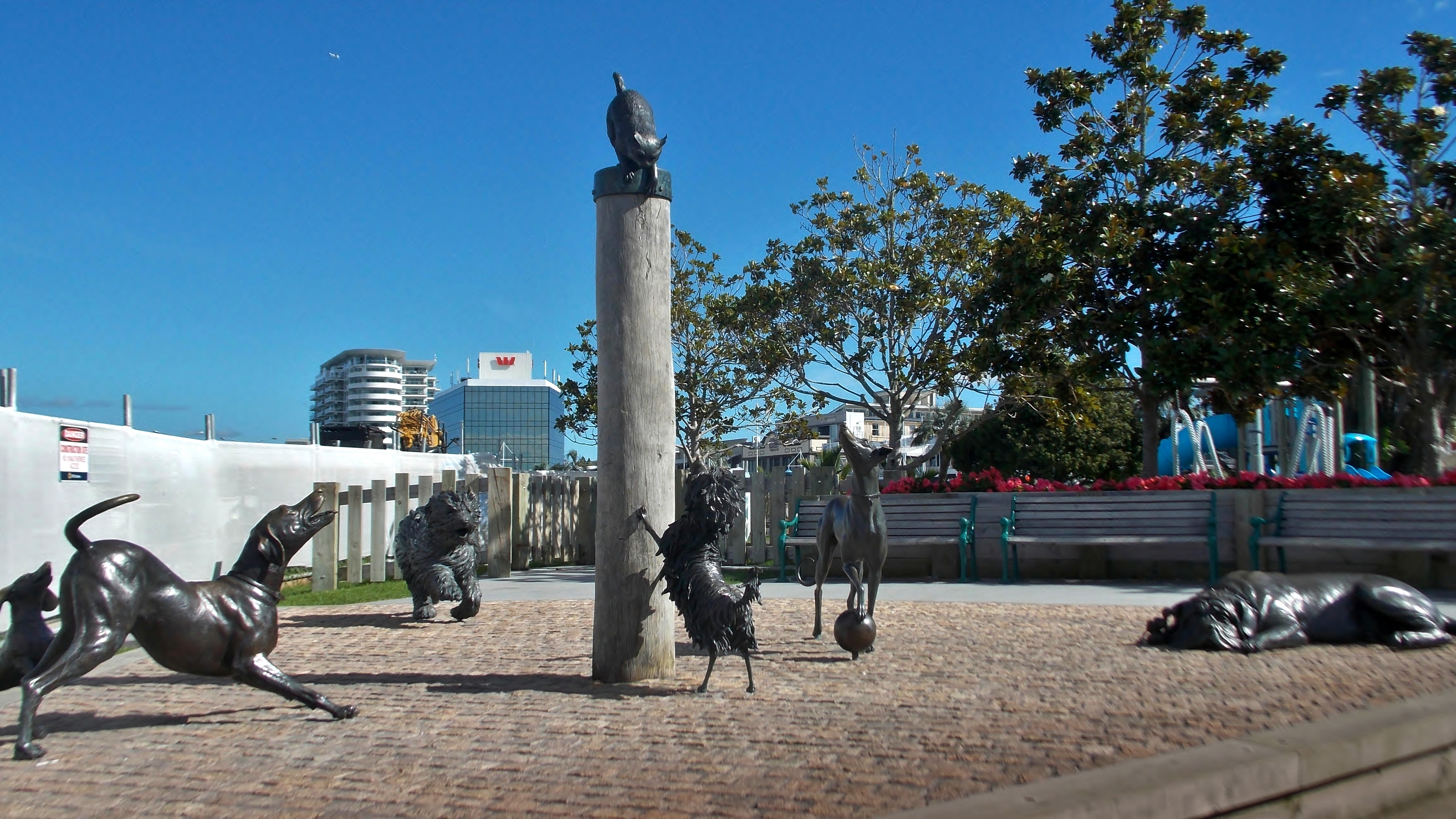 Life-sized bronze statues of Hairy Maclary & his animal friends.